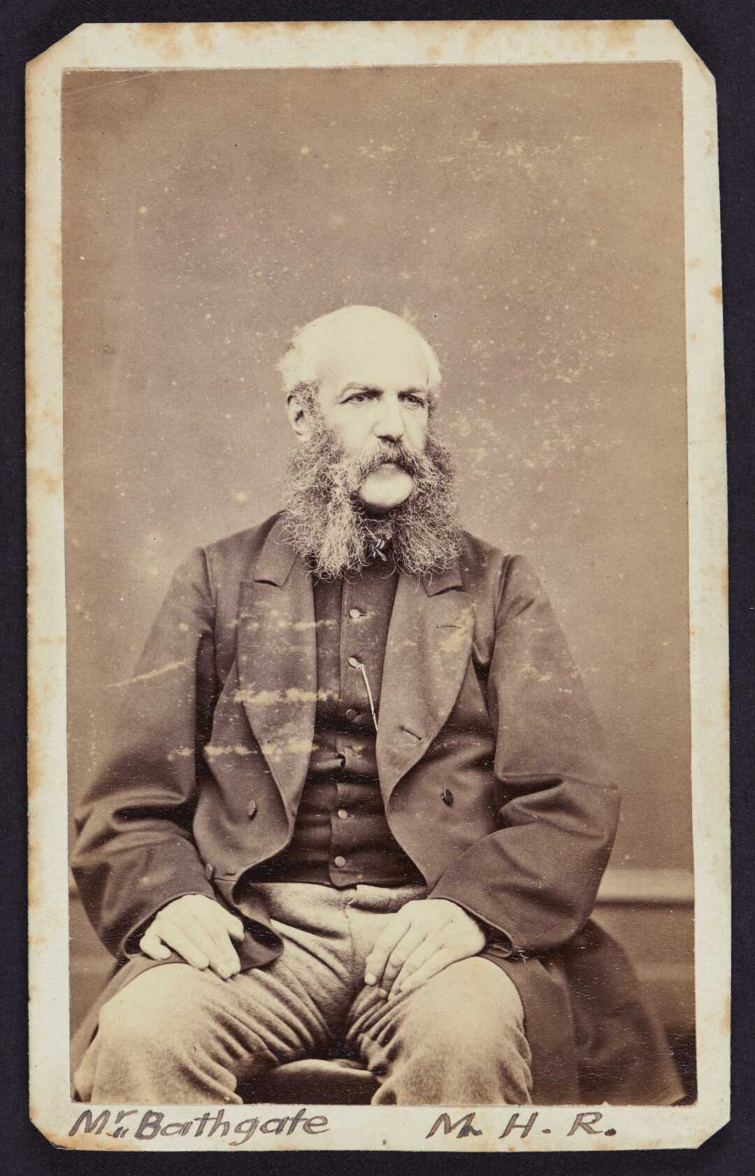 Portrait of Hon. John Bathgate, taken by an unidentified photographer